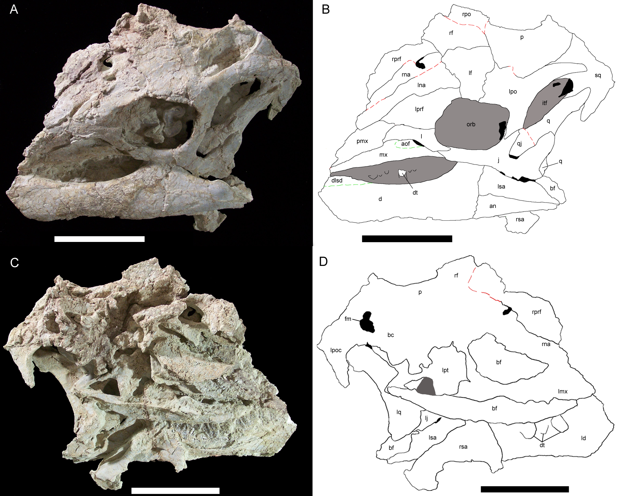 Skull of Hippodraco scutodens. (A) Skull of UMNH VP 20208, holotype of Hippodraco scutodens, in left lateral view. (B) Tracing of the skull of UMNH VP 20208 in left lateral view. Bones are white, matrix is grey, and empty spaces are black. Sutures and bone outlines are represented by solid black lines, ambiguous sutures by red dashed lines, and surficial features of the bones by green dashed lines. (C) Skull of UMNH VP 20208 in left medial view. (D) Tracing of the skull of UMNH VP 20208 in left medial view. Bones are white, matrix is grey, and empty spaces are black. Sutures and bone outlines are represented by solid black lines, ambiguous sutures by red dashed lines. Abbreviations: an, angular; aof, antorbital fossa; bc, braincase; bf, bone fragment; d, dentary; dlsd, dorsolateral shelf of dentary; dt, dentary tooth; fm, foramen magnum; itf, infratemporal fenestra; j, jugal; l, lacrimal; ld, left dentary; lf, left frontal; lj, left jugal; lmx, left maxilla; lna, left nasal; lpo, left postorbital; lpoc, left paroccipital process; lprf, left prefrontal; lpt, left pterygoid; lq, left quadrate; lsa, left surangular; mx, maxilla; orb, orbit; p, parietal; pmx, premaxilla; q, quadrate; qj, quadratojugal; rf, right frontal; rna, right nasal; rpo, right postorbital; rprf, right prefrontal; rsa, right surangular; sq, squamosal. Scale bars equal 10 cm.